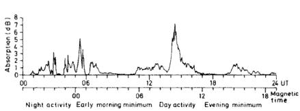 Chart of atmospheric attentuation. From United States Naval Observatory. Source is